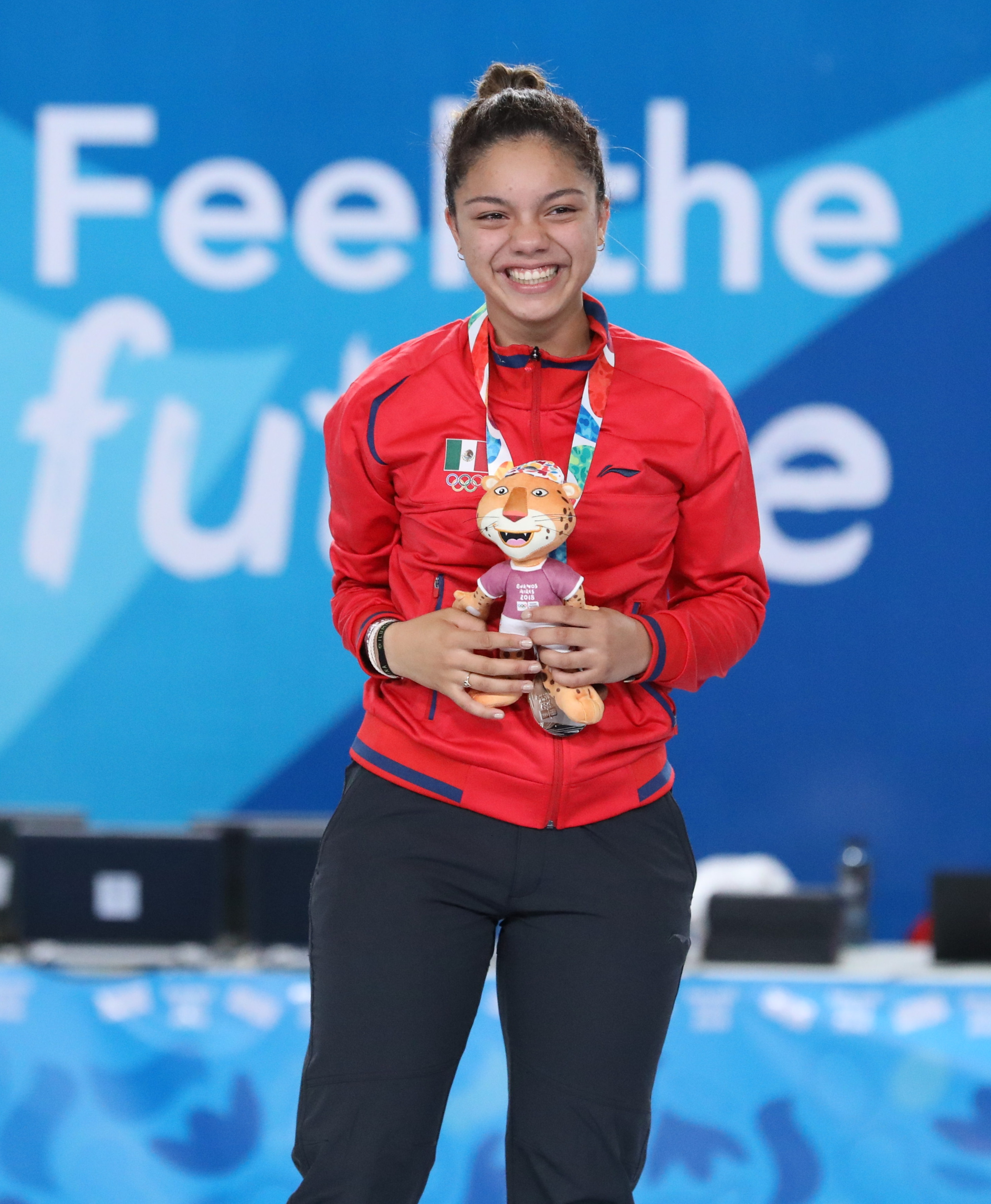 Girls' sabre, Victory ceremony: Liza Pusztai (Gold medal), Natalia Botello (Silver medal), Lee Ju-eun (Bronze medal))